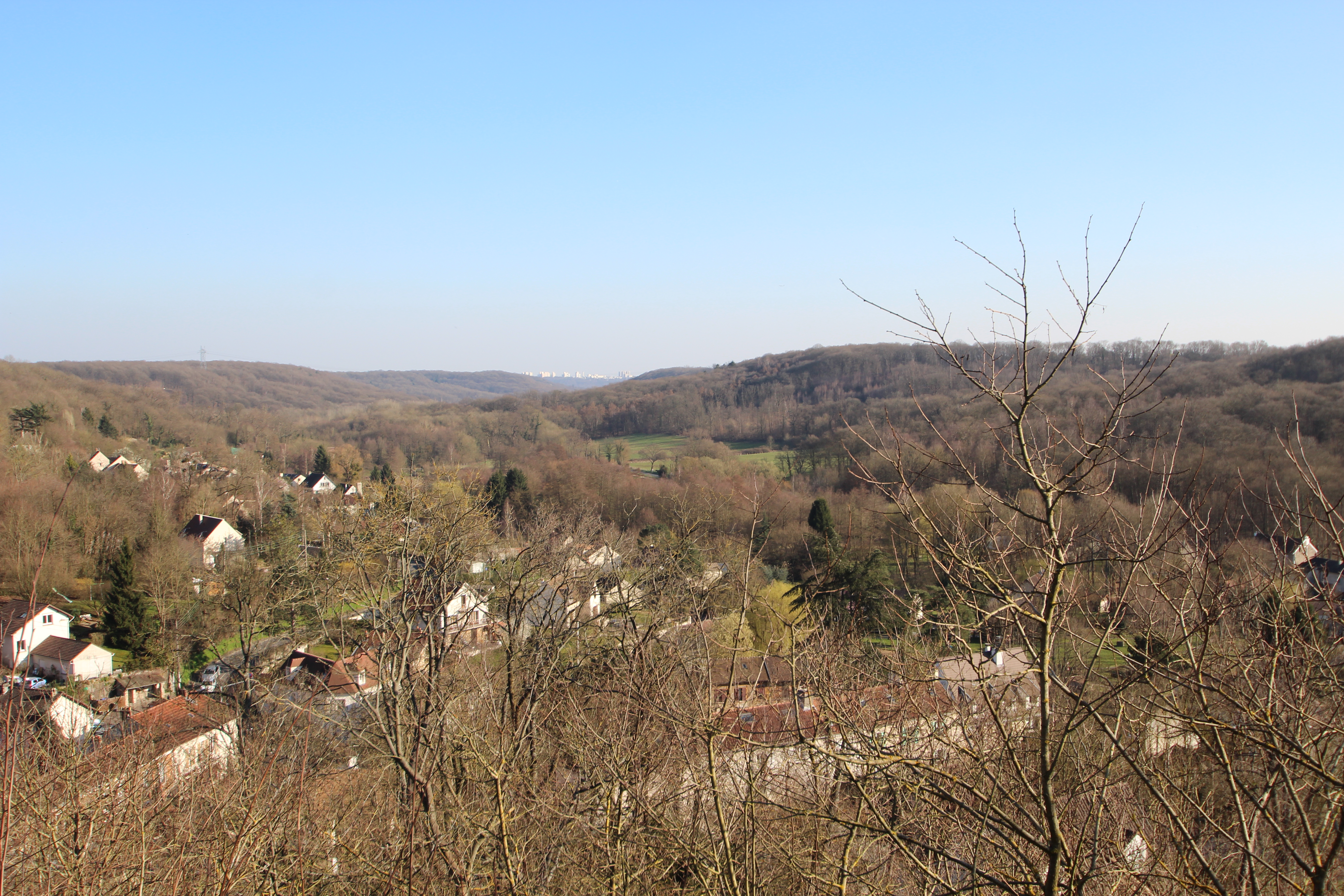 View of Châteaufort, Yvelines, France.